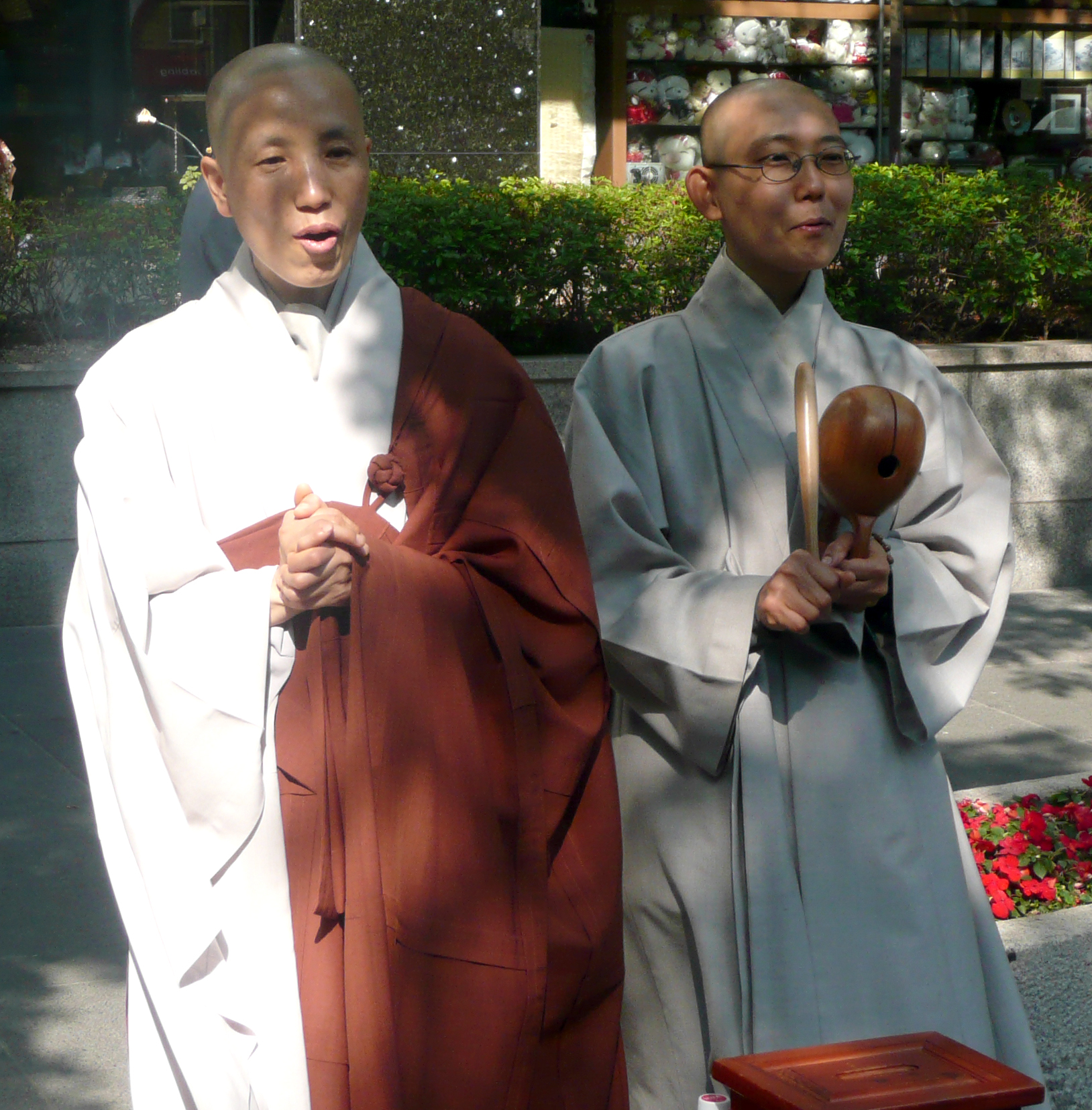 Buddhist monks in Seoul, South Korea